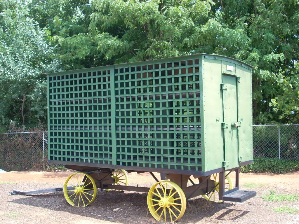 Oconee County Cage, Brown's Square Drive, Walhalla (Oconee County, South Carolina) NRHP